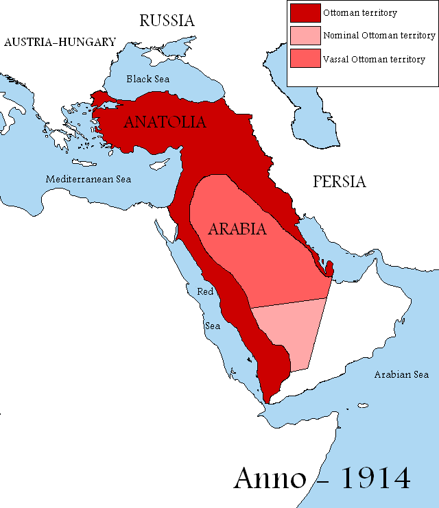 Map showing the territories of the Ottoman Empire in 1914, including nominal and vassal territories. According to the information on the map in